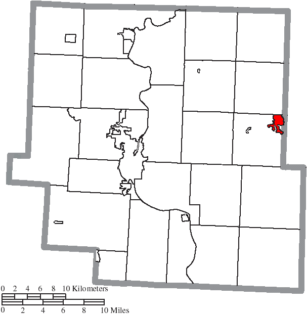 Map of the municipal and township boundaries of Muskingum County, Ohio, United States, as of the 2000 census, with the location of the village of New Concord highlighted. Township borders are shown only in unincorporated areas in order to differentiate incorporated and unincorporated areas more clearly.